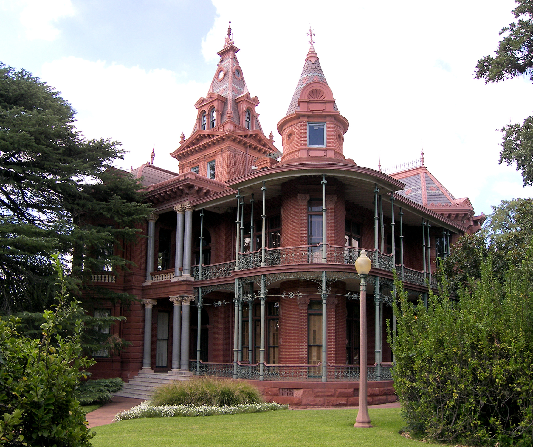 The Littlefield House, Austin, Texas, United States. The house was designated a Recorded Texas Historic Landmark in 1962 and listed on the National Register of Historic Places on August 25, 1970 as University of Texas, Littlefield House.